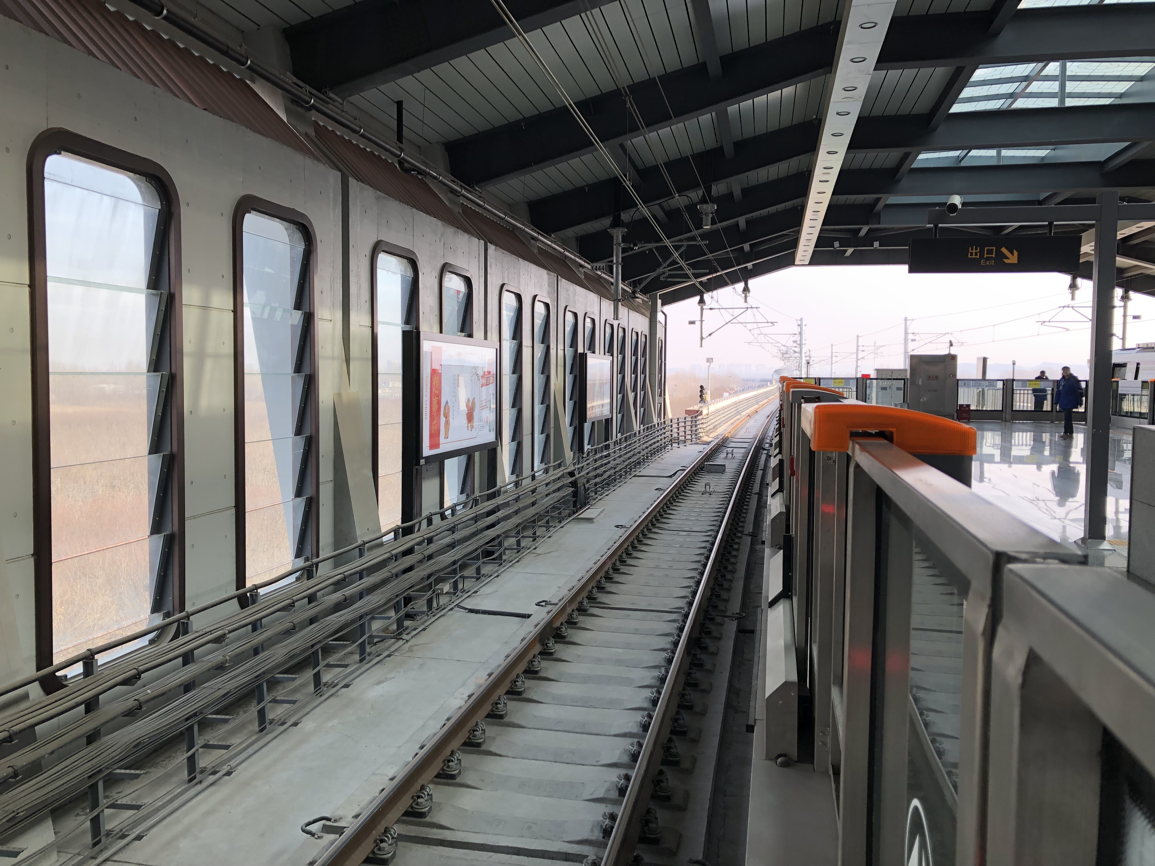 Track at Zhaoying Station, towards the coming direction of the train.